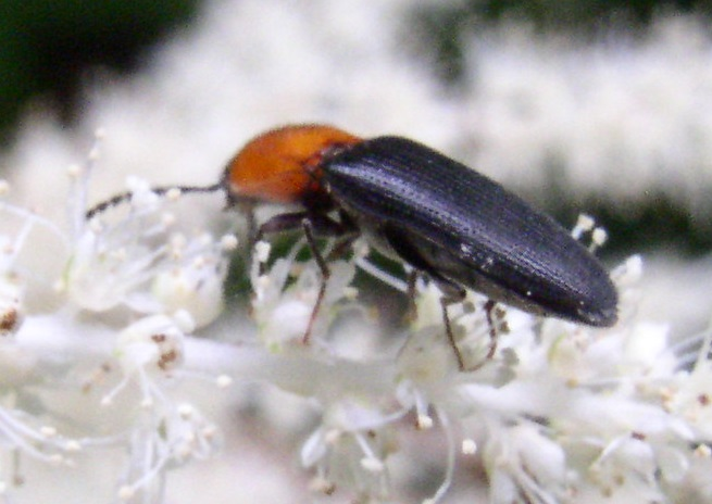 Click beetle, Ampedus collaris. Size: 5-7 mm. Briar Bush Nature Center, Montgomery County, Pennsylvania, USA.